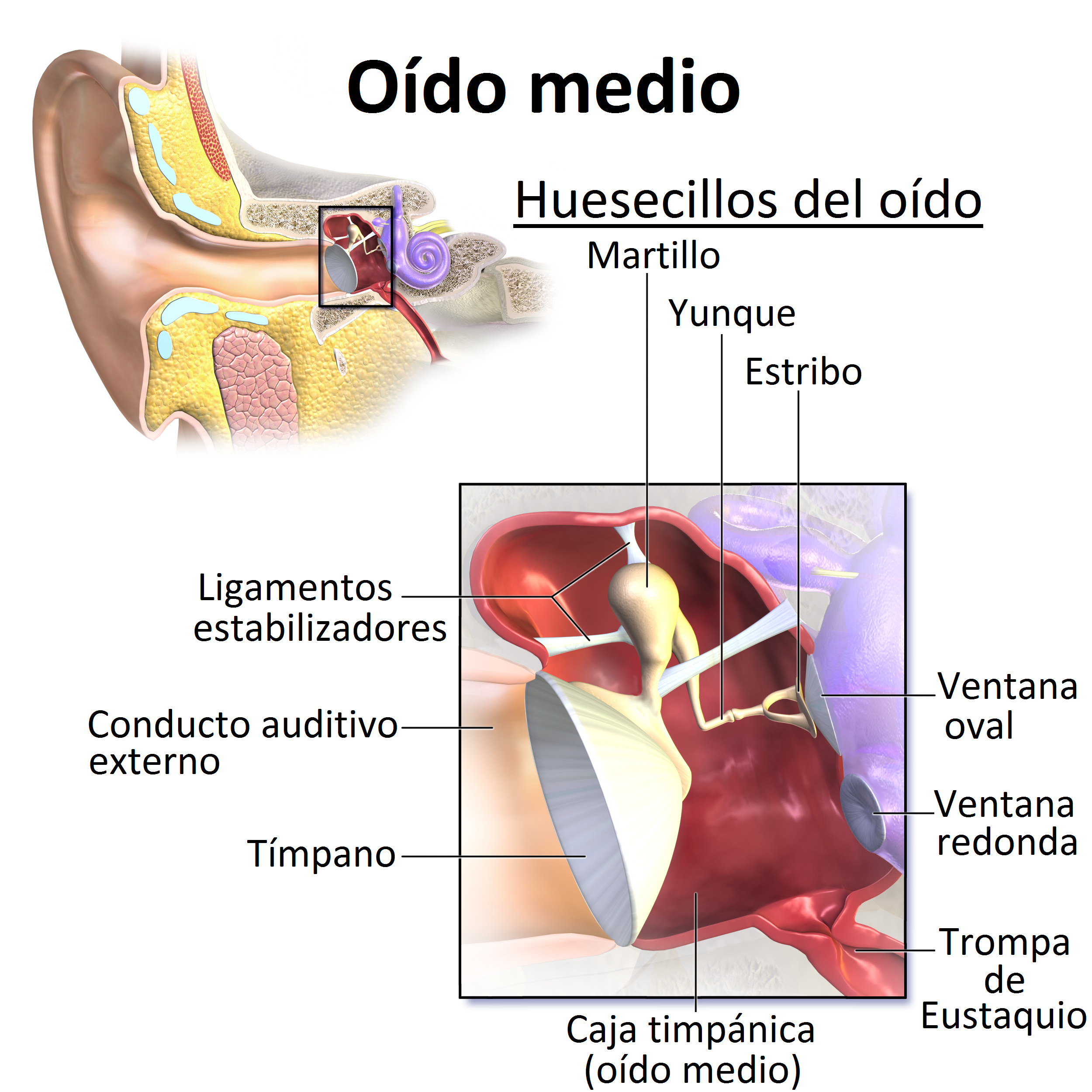 Middle Ear Anatomy. See a related animation of this medical topic.